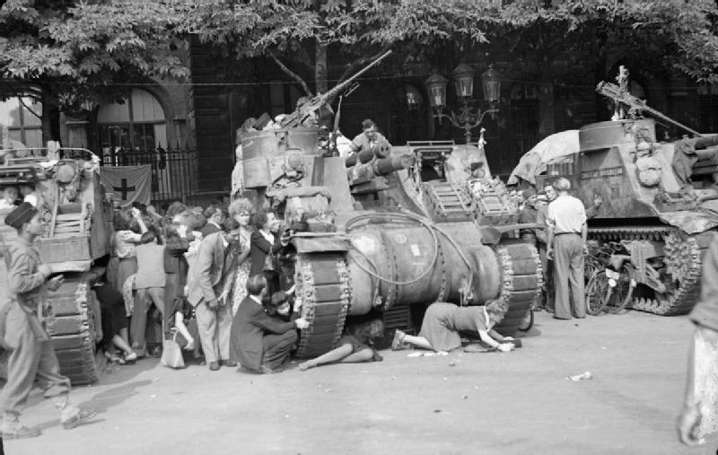 The Campaign in North-west Europe 1944-45 Civilians shelter behind Priest 105mm self-propelled guns of the French 2nd Armoured Division as German snipers open fire from buildings in Paris, 26 August 1944.